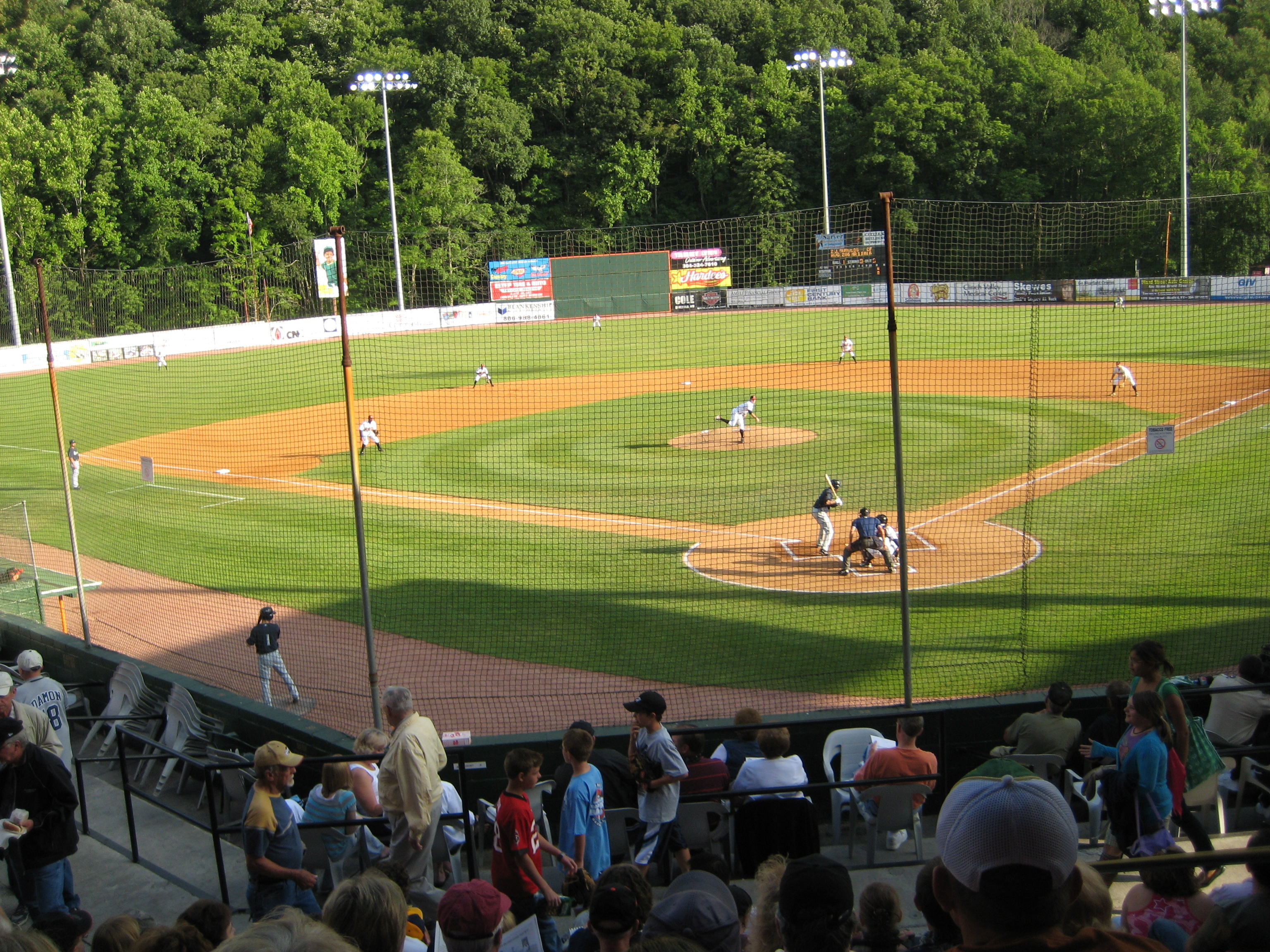 Bowen Field, Bluefield, Virginia. Bluefield Orioles vs. Pulaski Mariners, July 3rd, 2009